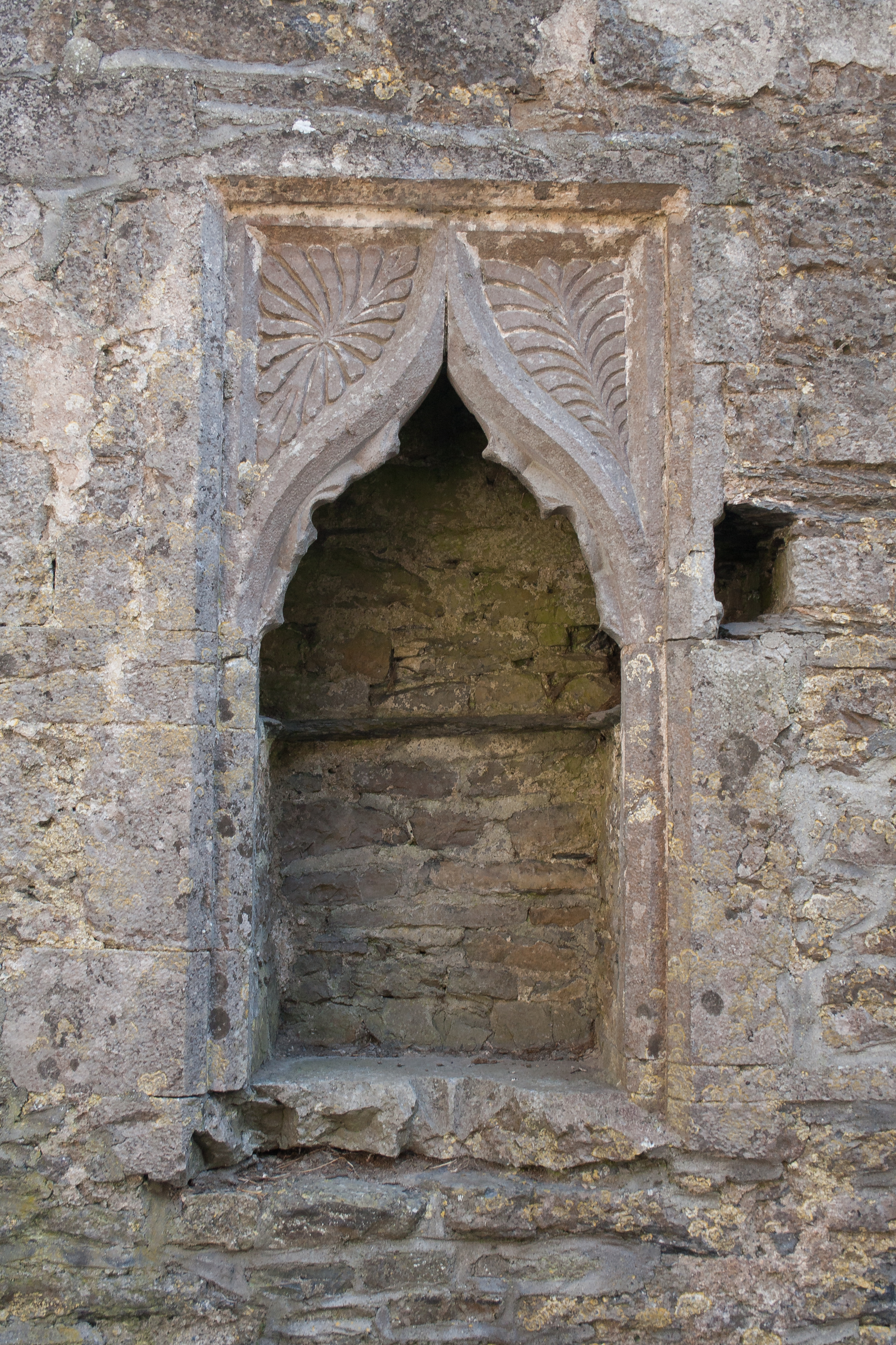 Piscina in the east wall of the south transept of the Dominican Priory of St. Canice in Aghaboe.